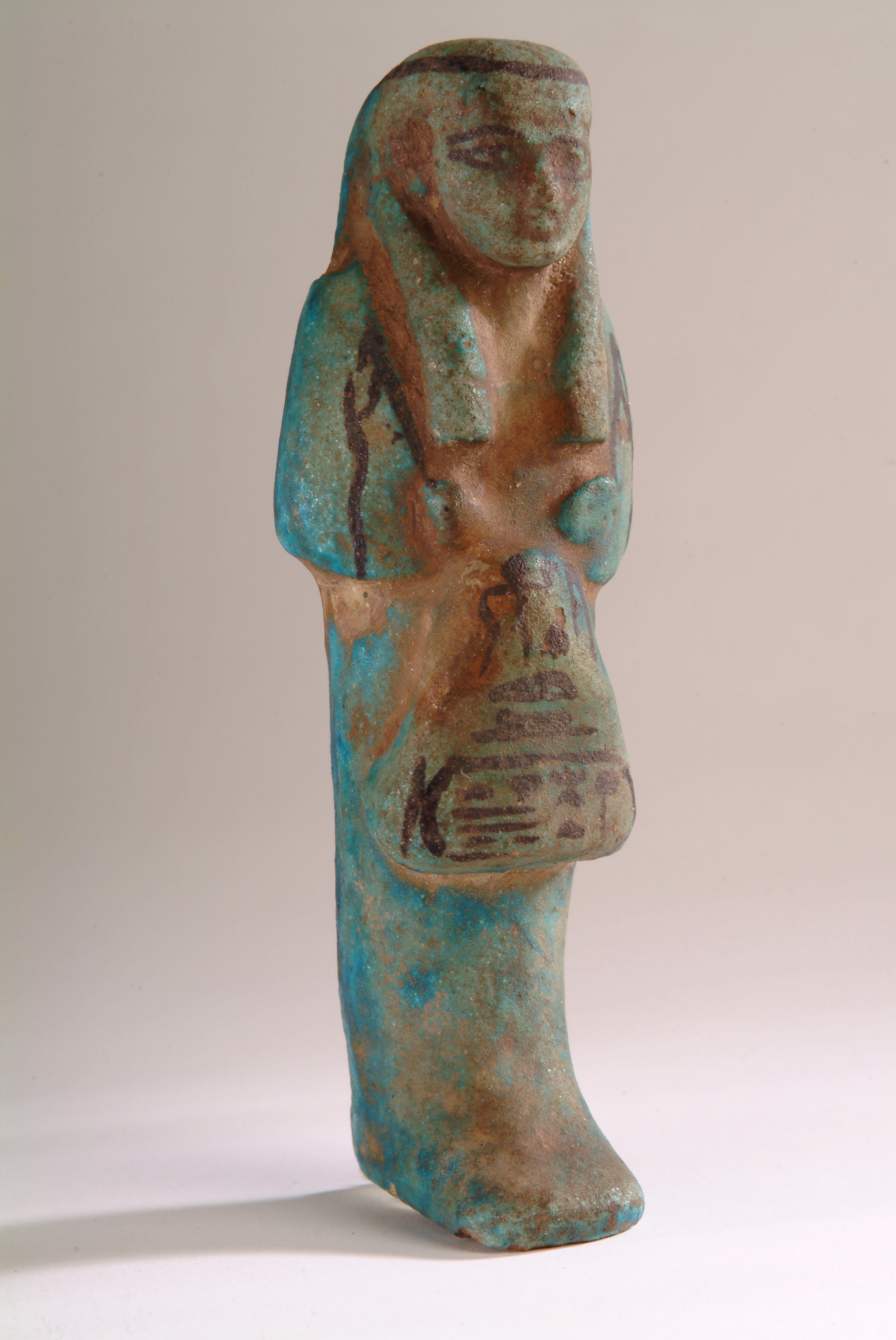 Egyptian faience overseer shabti from the buial of Queen Henuttaway. This dark blue Faience shabti was excavated from the famous Deir El Bahari cache between c.1871=1881 AD. Queen Henutawy (c.1069 - 1043 BC) was the daughter of King Smendes, and was married to Pinudjem, a priest. : They were buried together and local villagers uncovered their tomb (DB.320 at Deir el-Bahari in Thebes) in 1871, and kept it a secret in order to sell the contents. The tomb was rediscovered by the authorities in 1881 by which time many items, including Pinudjem's mummy, had vanished. The Mummy of Queen Henuttaway is now in the Cairo Museum